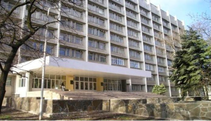 university main